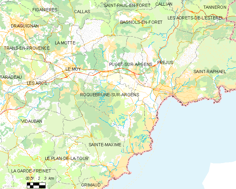 Map of French municipality Roquebrune-sur-Argens